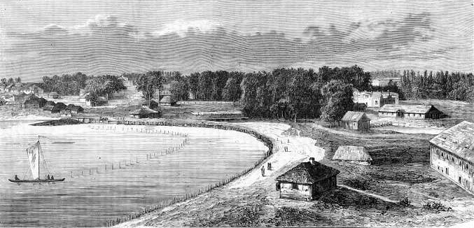 Teofipol.